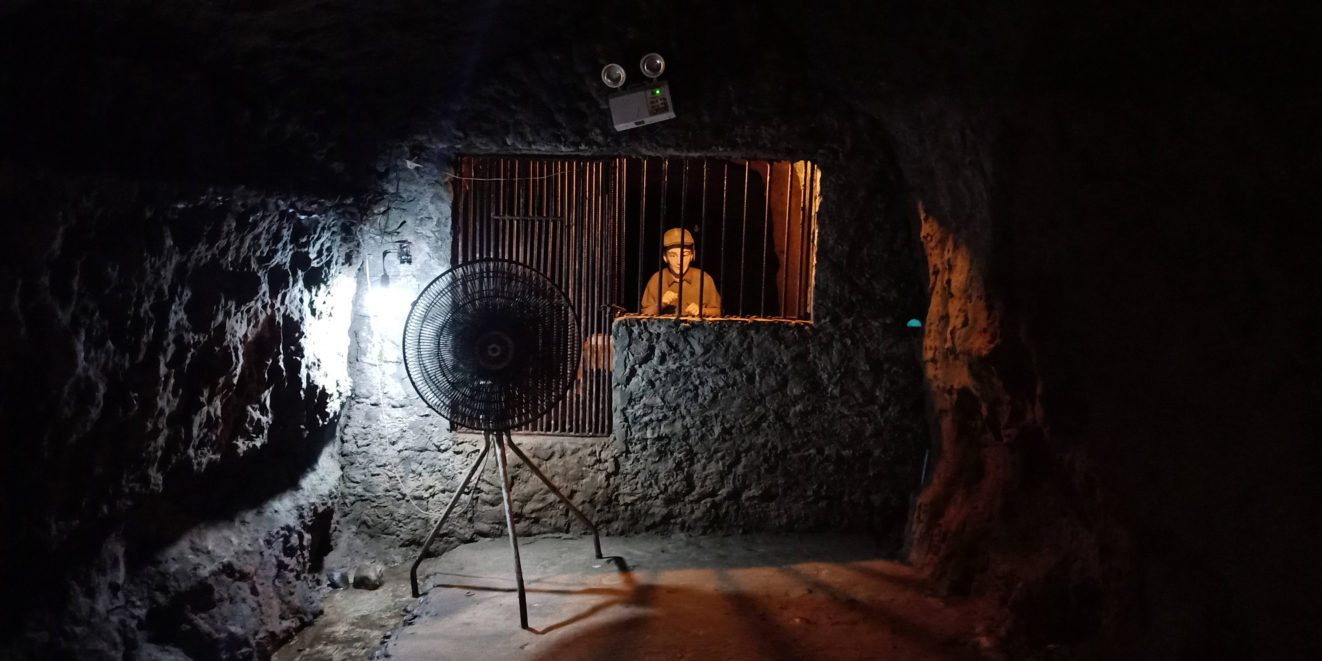 The end of the Japanese Tunnel where the air was hotter and more humid.